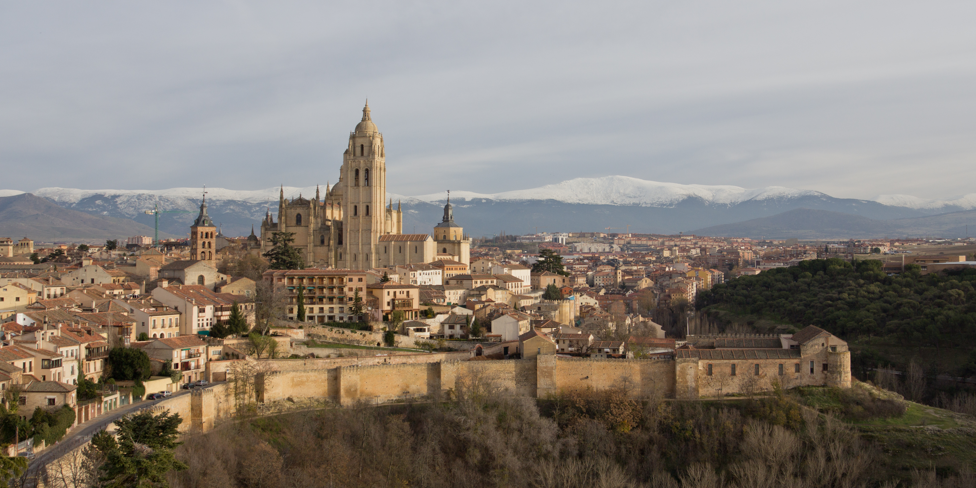 View of Segovia (Spain) as seen from the alcázar.